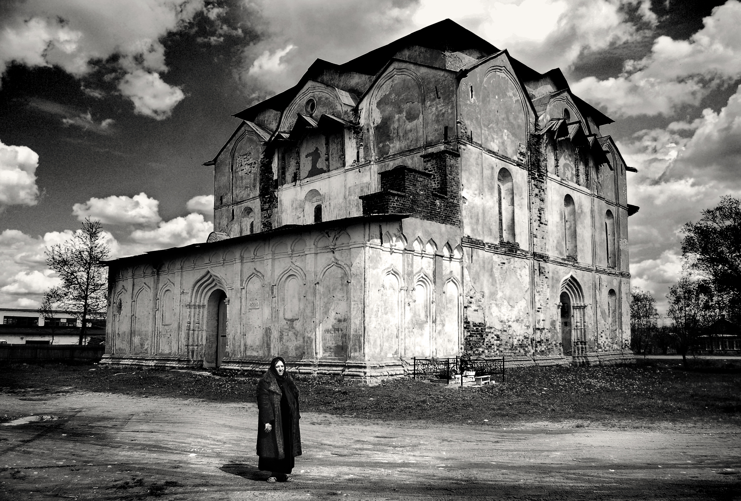 St Volodymyr's Cathedral in Syrkov Monastery. Evdokiya Grigorievna Zlydneva - keeper of Vera's archives.